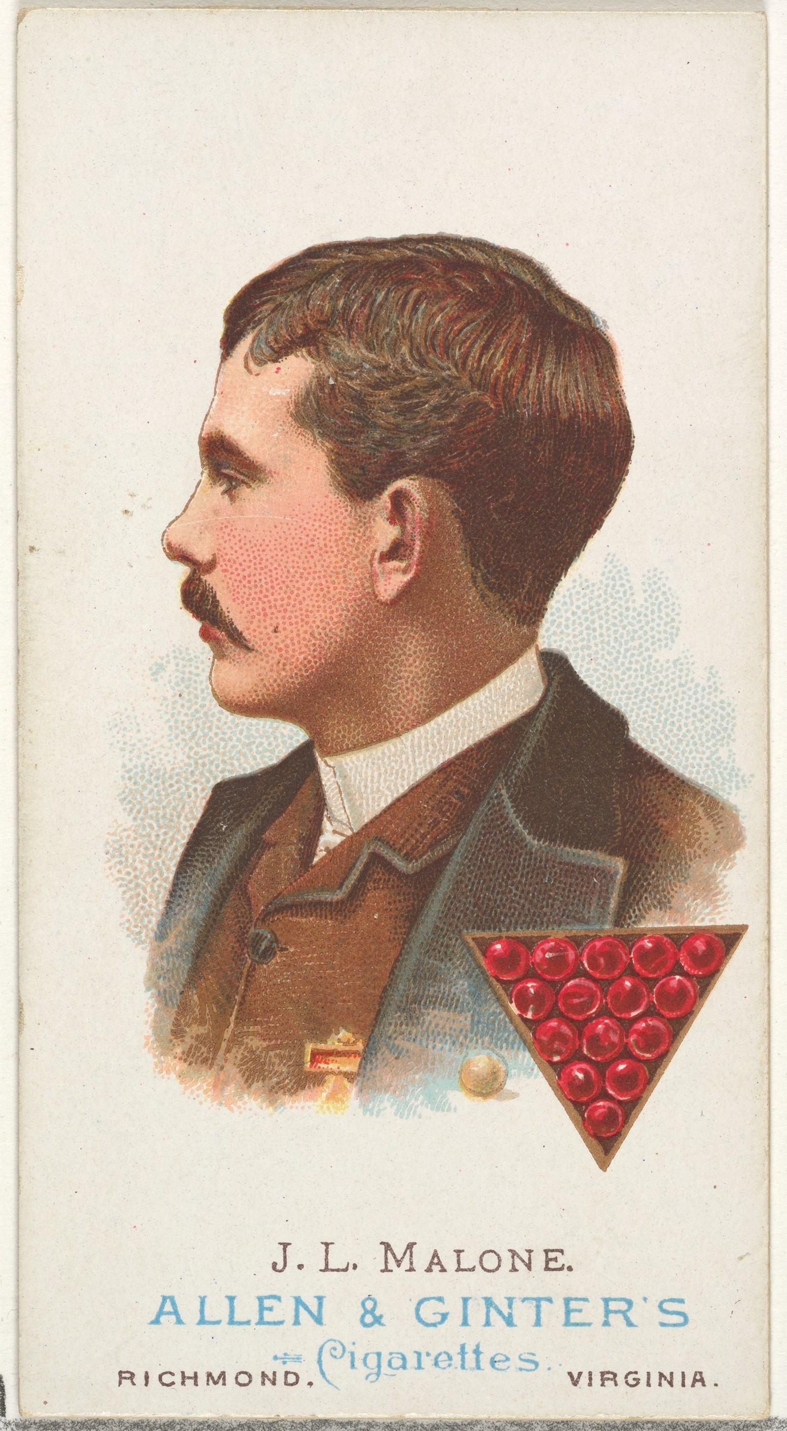 Print; Prints/Ephemera